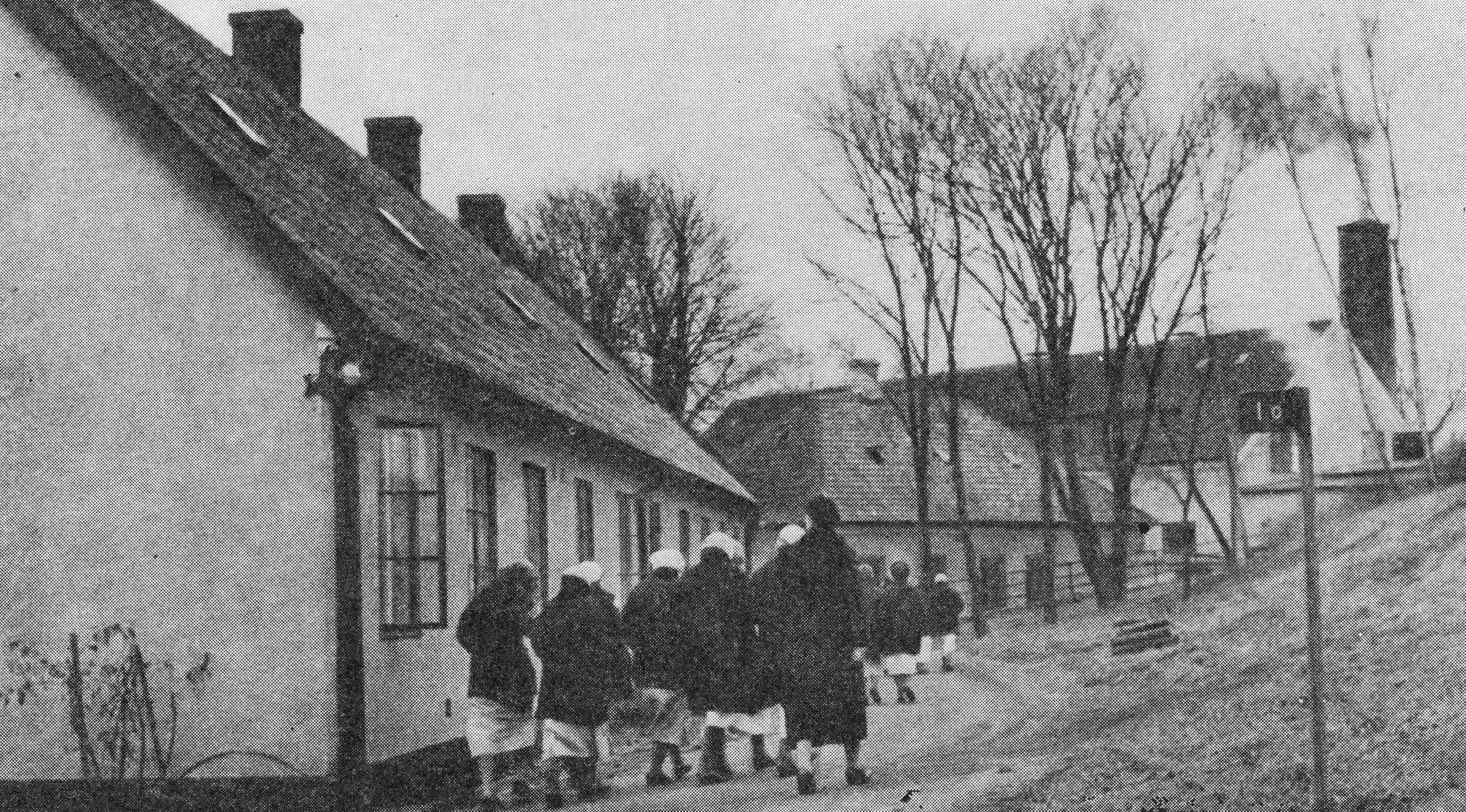 Sweden's workhouse for women in Landskrona in the 1930s, where some 50 female vagrants were engaged with hosework and labor.